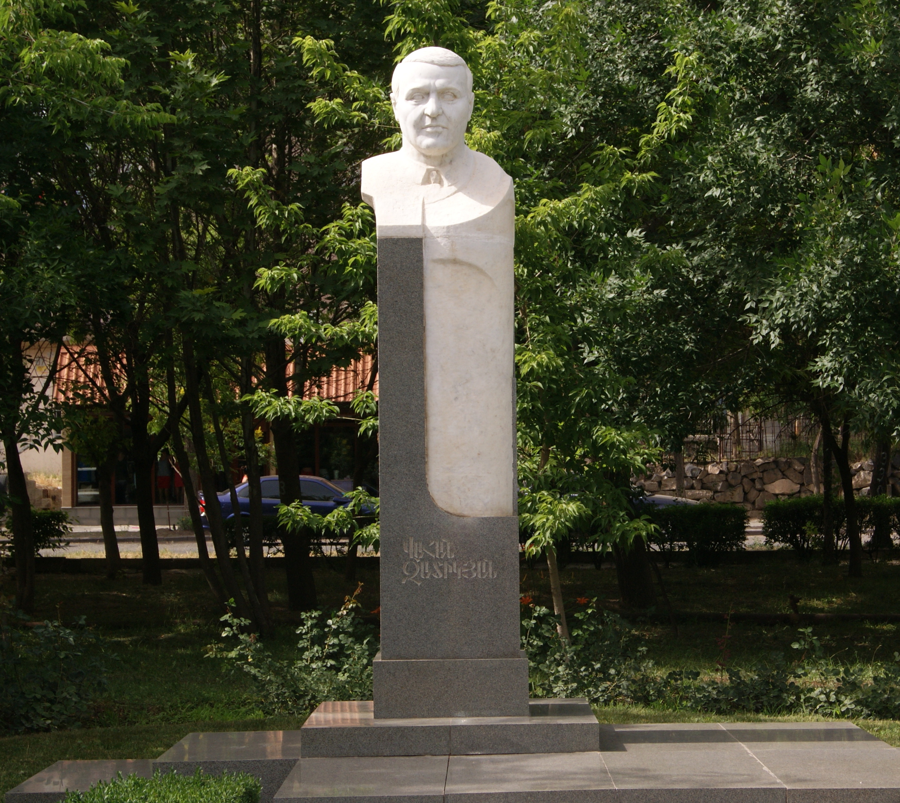 Վահան Զատիկյանի կիսանդրին նրա անվան այգում